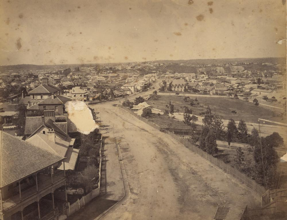 Looking down Wickham Terrace towards the city from the Observatory, Brisbane, 1863